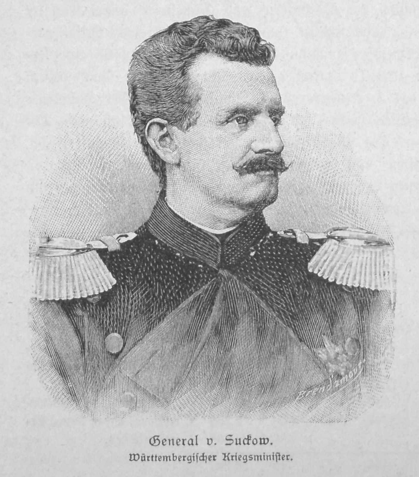 general von Suckow